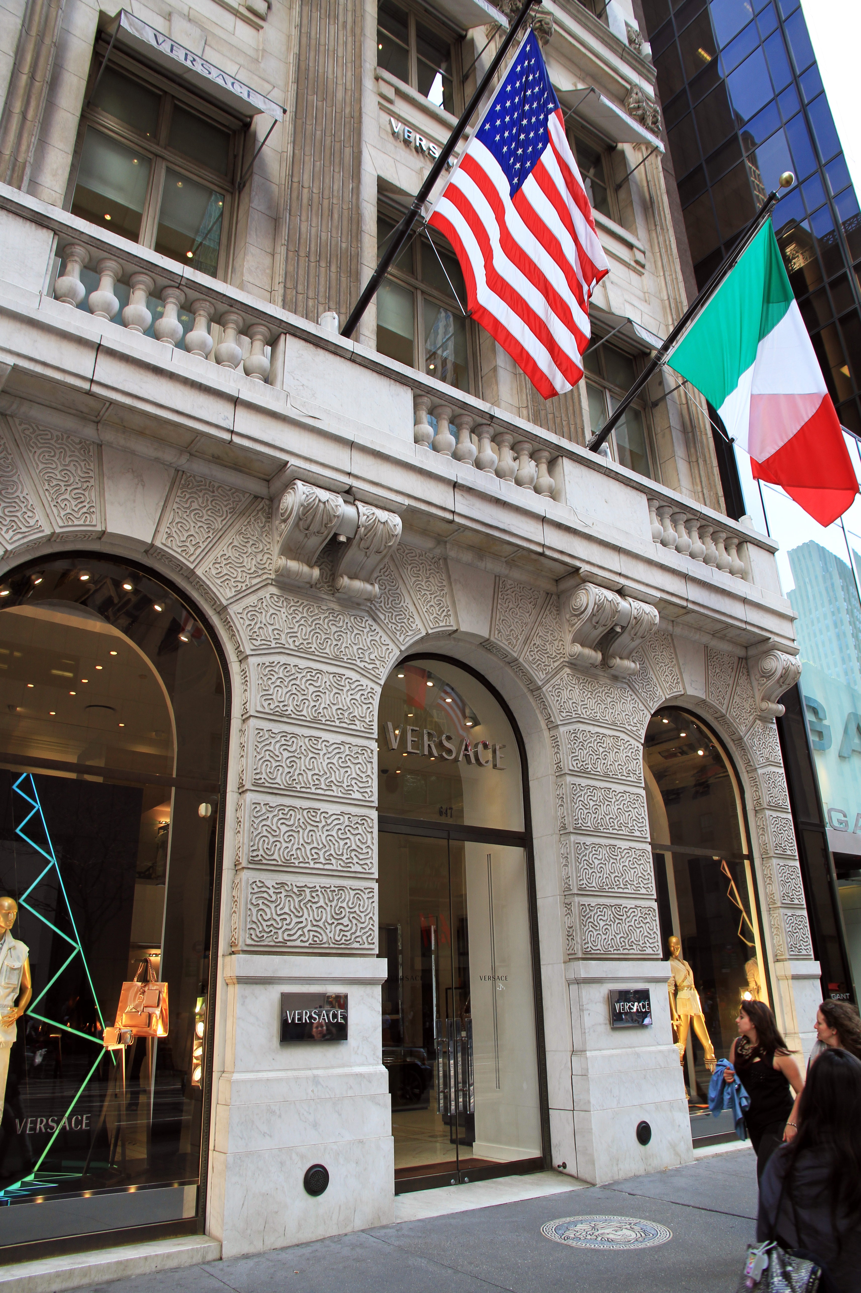 5th Avenue, NYC, 2013